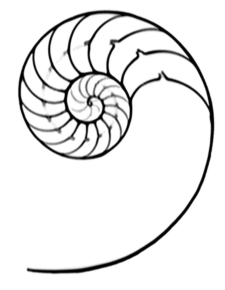 Nautilus Pompilius